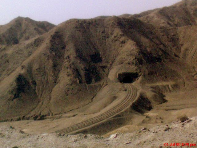 Turbat - Khojak tunnel is present b/w Quetta and Chaman, the border town of Pakistan.